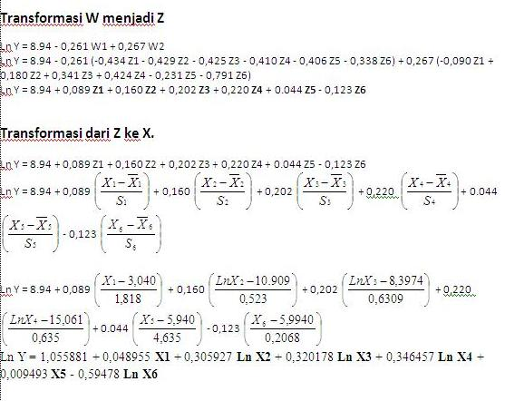 Sample of Principal Components Analysisi